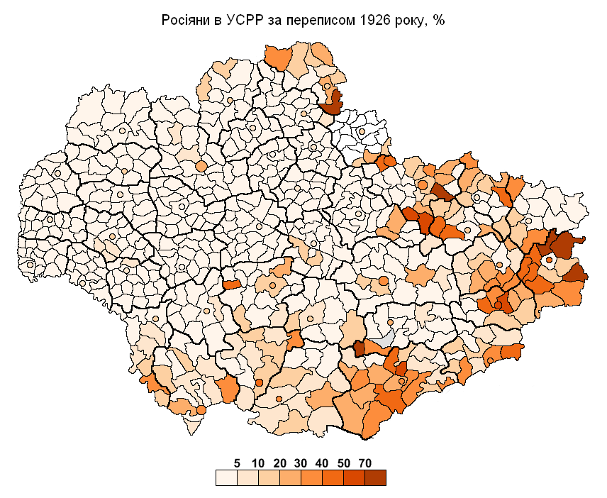 Percentage of ethnic russians in Ukrainian SSR by raions, 1926 soviet census